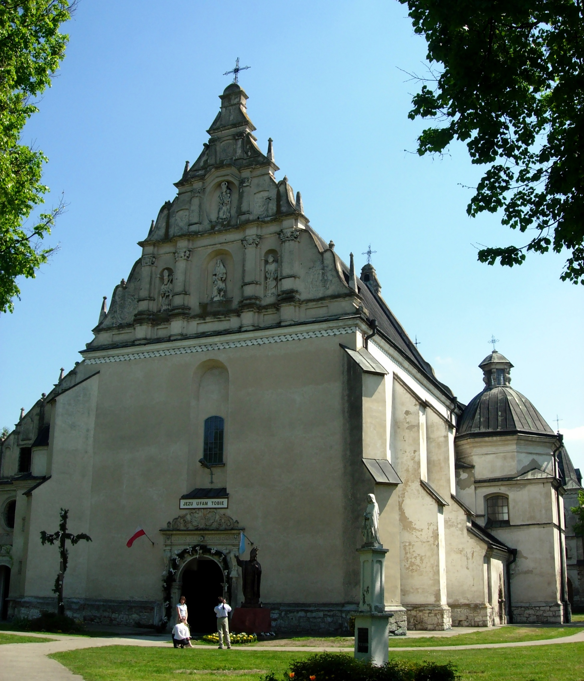 Saint Trinity Church in Nowy Korczyn, Poland